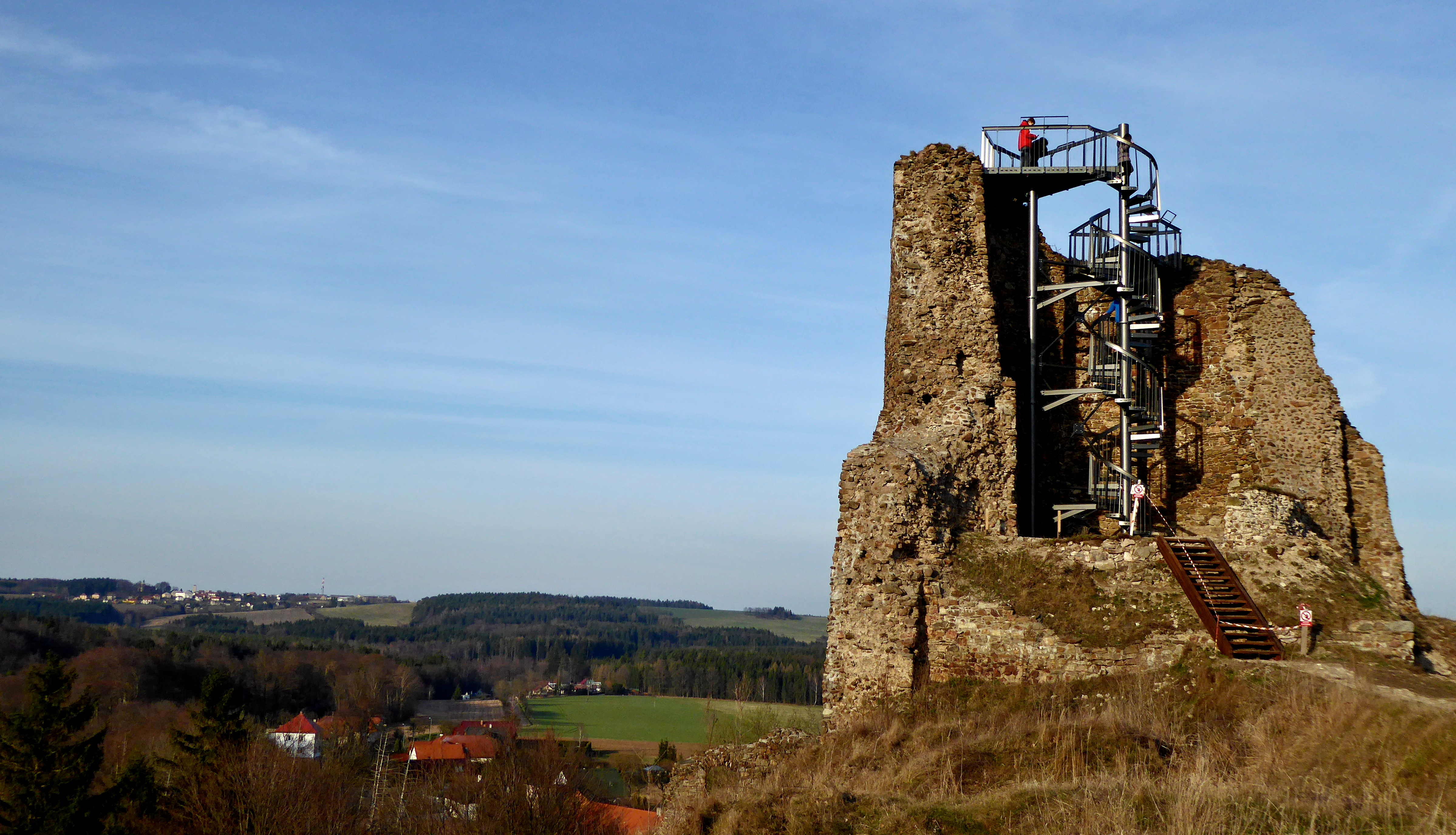 Lookout tower "Milada – Lichnice" is built in the castle ruins area in the "Podhradí" cadastral area in Iron Mountains (part of Třemošnice). The lookout tower is a metal structure. The lookout tower is a metal structure and was assembled on site. The investor is town Třemošnice and the Association of Municipalities of the Iron Mountain Microregion. Photo location: Czechia, Pardubice Region, villages Podhradí.